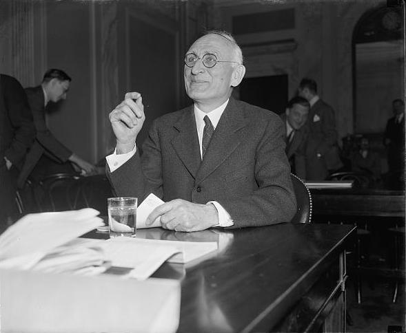 This is an slighty cropped image of former Tennessee Valley Authority Chairman Arthur E. Morgan testifying before a committee of the United States Congress on December 3, 1938. The committee was investigating charges brought against the TVA by Morgan.